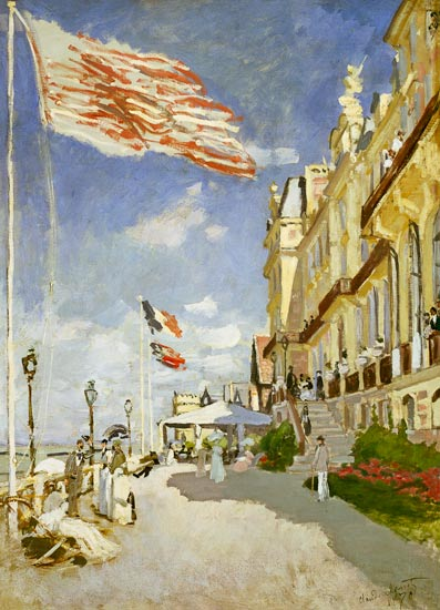 Hôtel des roches noires. Trouville